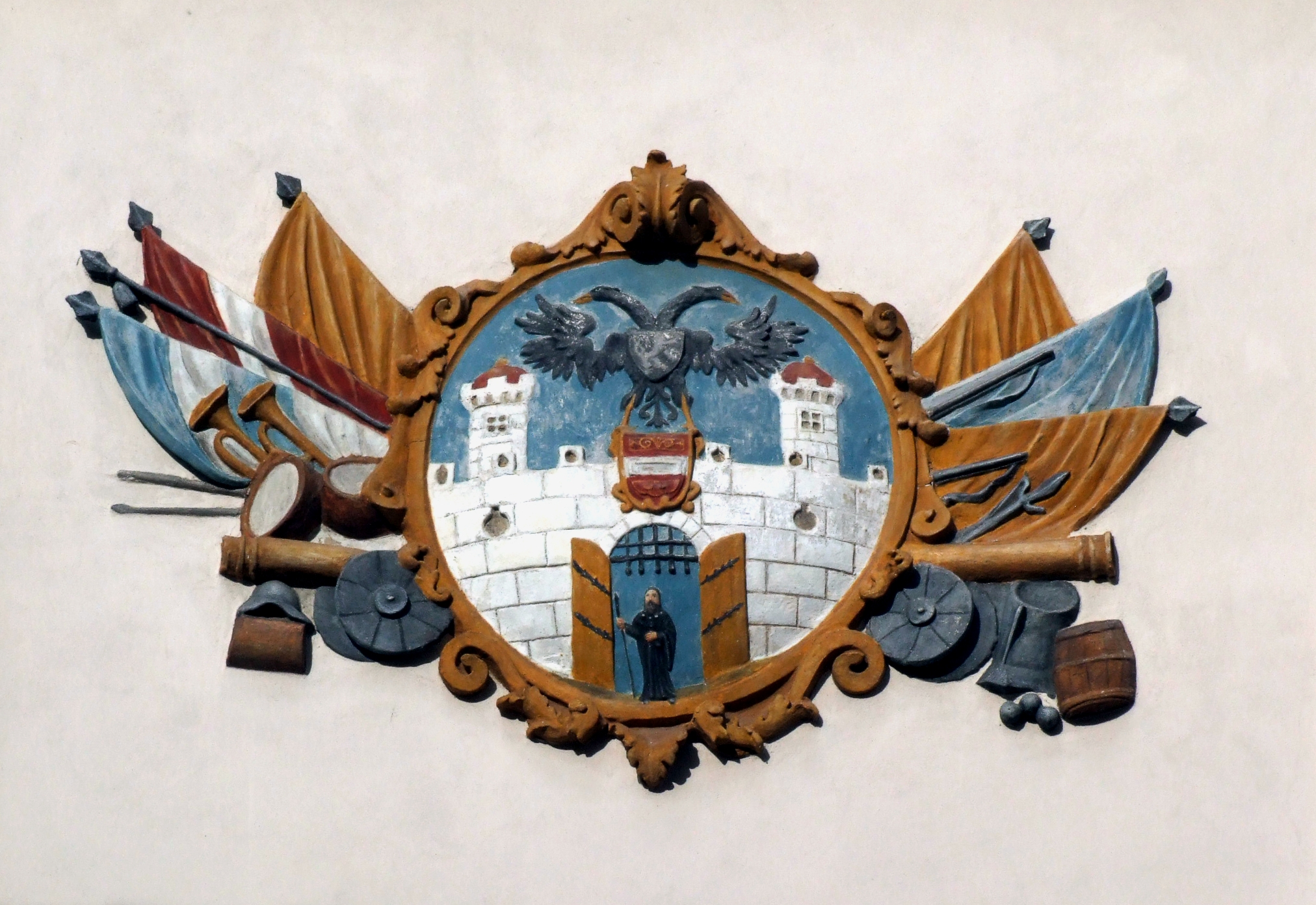 Old coat of arms (before 1926) of Pelhřimov (Pilgrams)